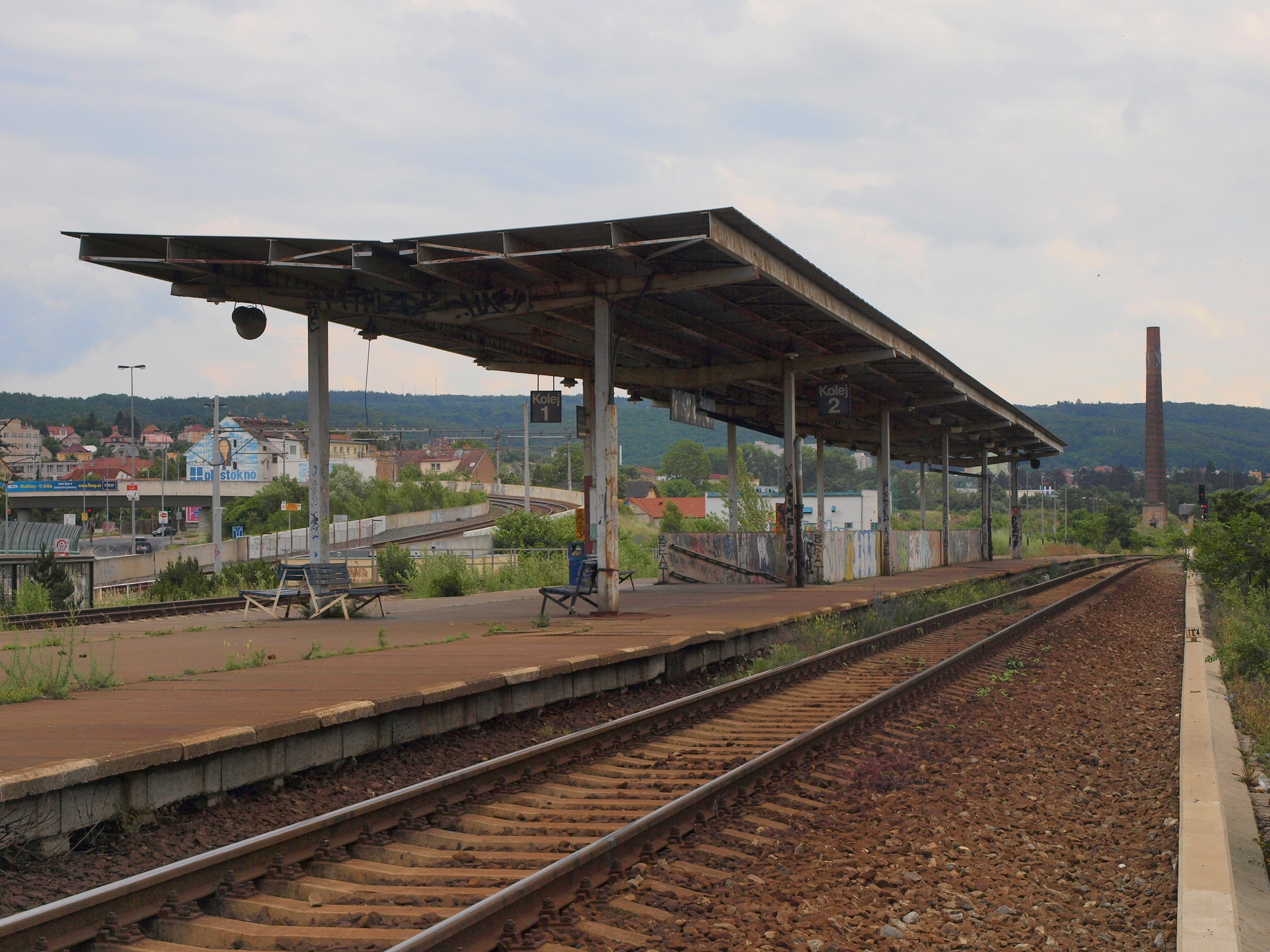 Train stop Praha-Modřany zastávka, railway track Praha – Vrané nad Vltavou – Čerčany/Dobříš (210)